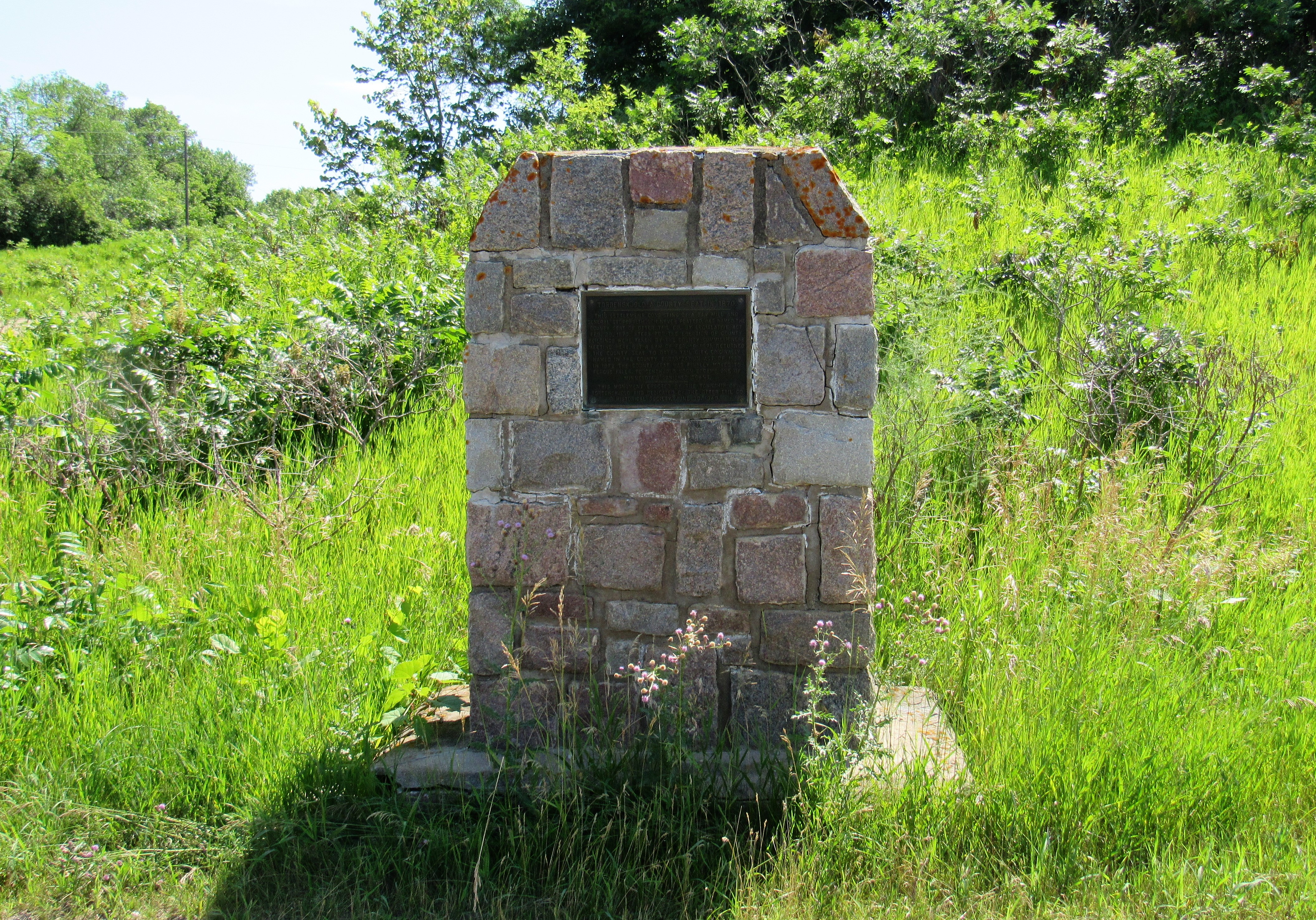 Tordenskjold Monument marks the location of the community of Tordenskjold, which was named the Otter Tail County seat in 1871. The town was never platted and it never became the county seat. There is nothing left of it now.